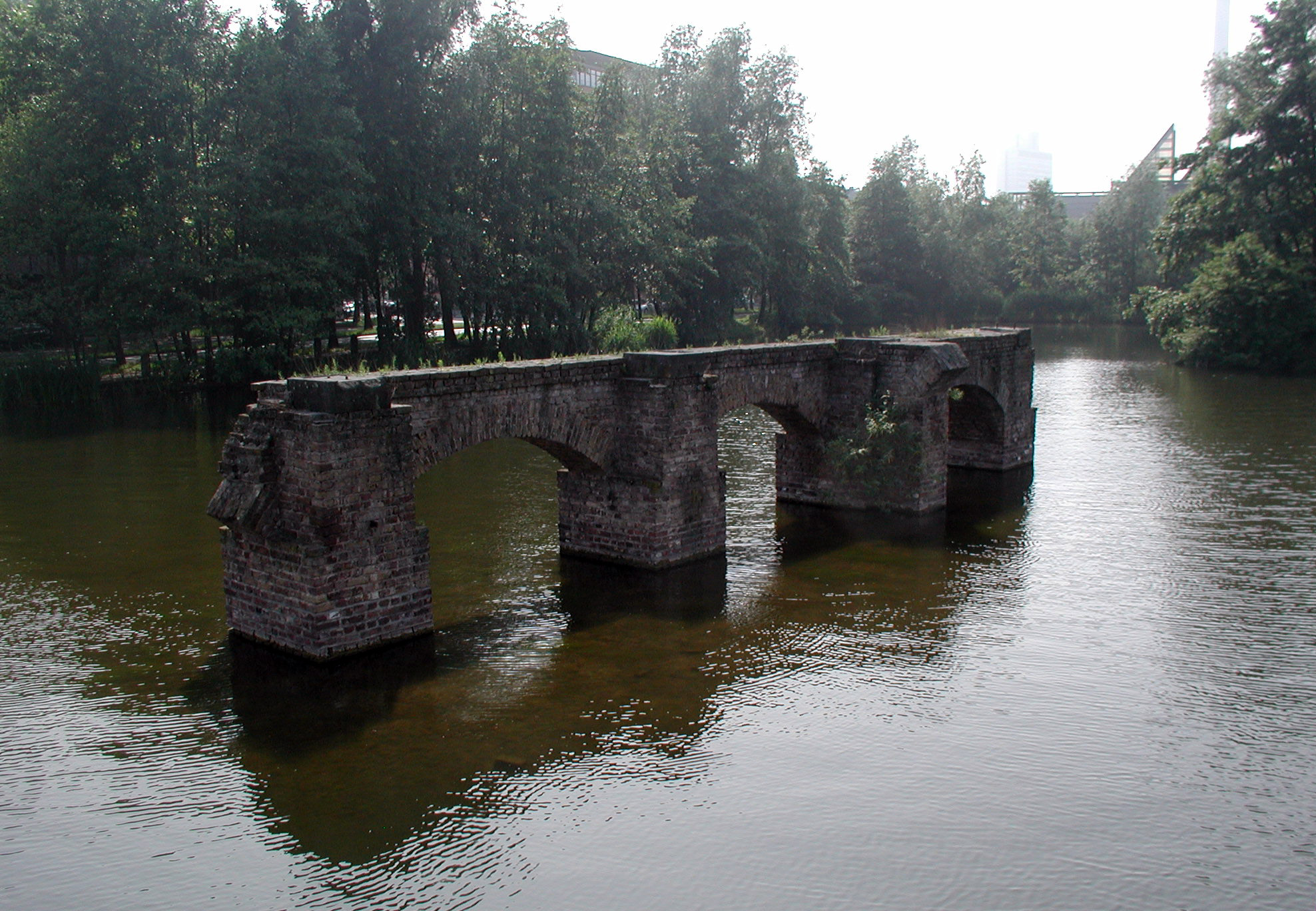 Cologne MediaPark - Lake with old bridge arch